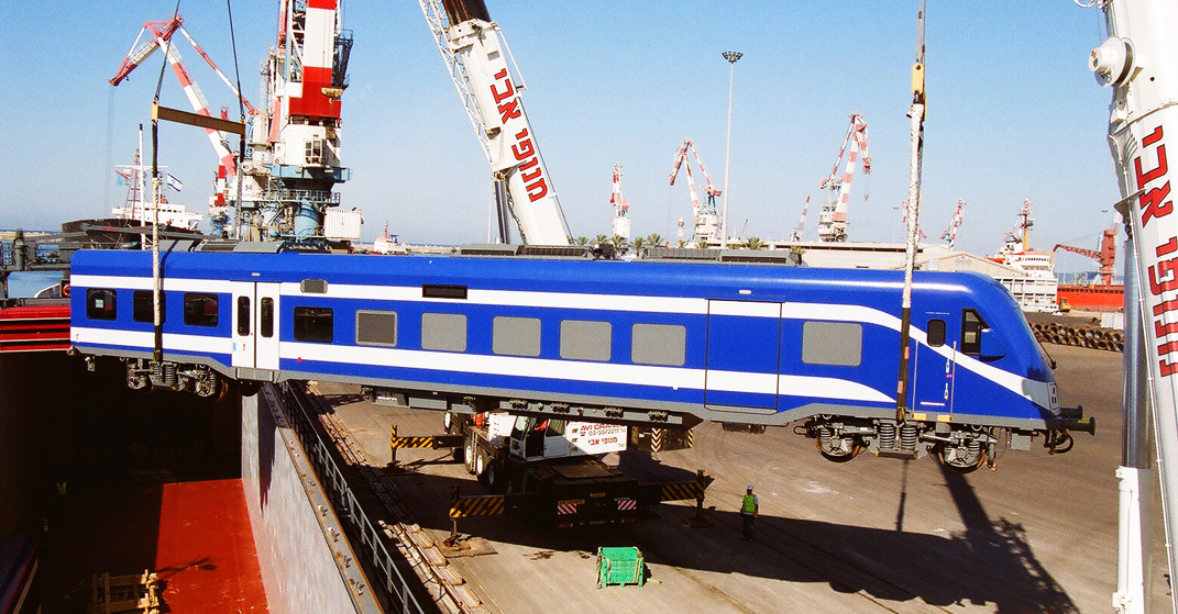 Israel Railways' Siemens Viaggio Light being unloaded in Israel. Photograph taken, scanned, and released into public domain by Evyatar Reiter. Shot using AGFA Ultra 50 ASA film.